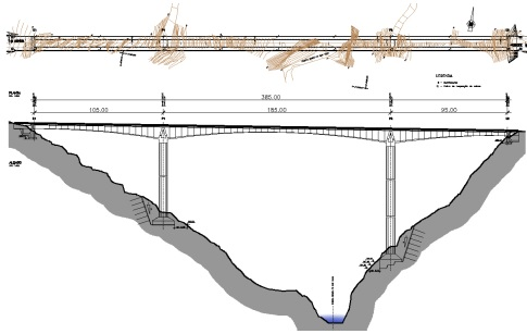 planta e alçado do viaduto despe-te que suas